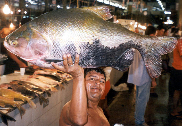 Image of Colossoma macropomum (pacú, pacu, tambaqui), approx. 8 dm TL; Location: Manaus Fish Market, Brazil; Photo dated: 01.09.2000